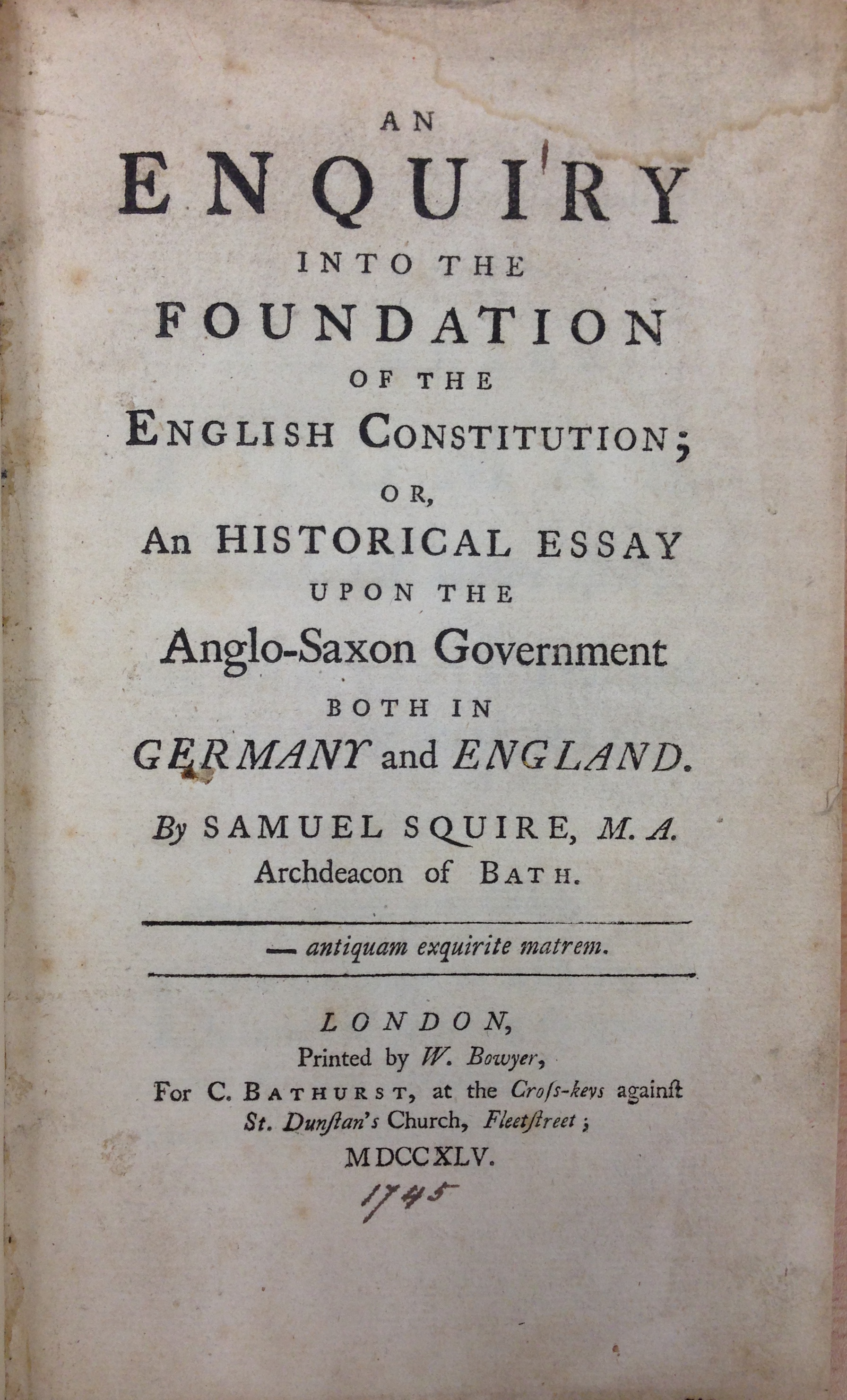 Title page of Samuel Squire (1745) An Enquiry into the Foundation of the English Constitution; or, an Historical Essay upon the Anglo-Saxon Government both in Germany and England. By Samuel Squire, M.A. Archdeacon of Bath (PDF), London: Printed by W[illiam] Bowyer, for C. Bathurst, at the Cross-Keys against St. Dunstan's Church, Fleetstreet OCLC: 642240567.